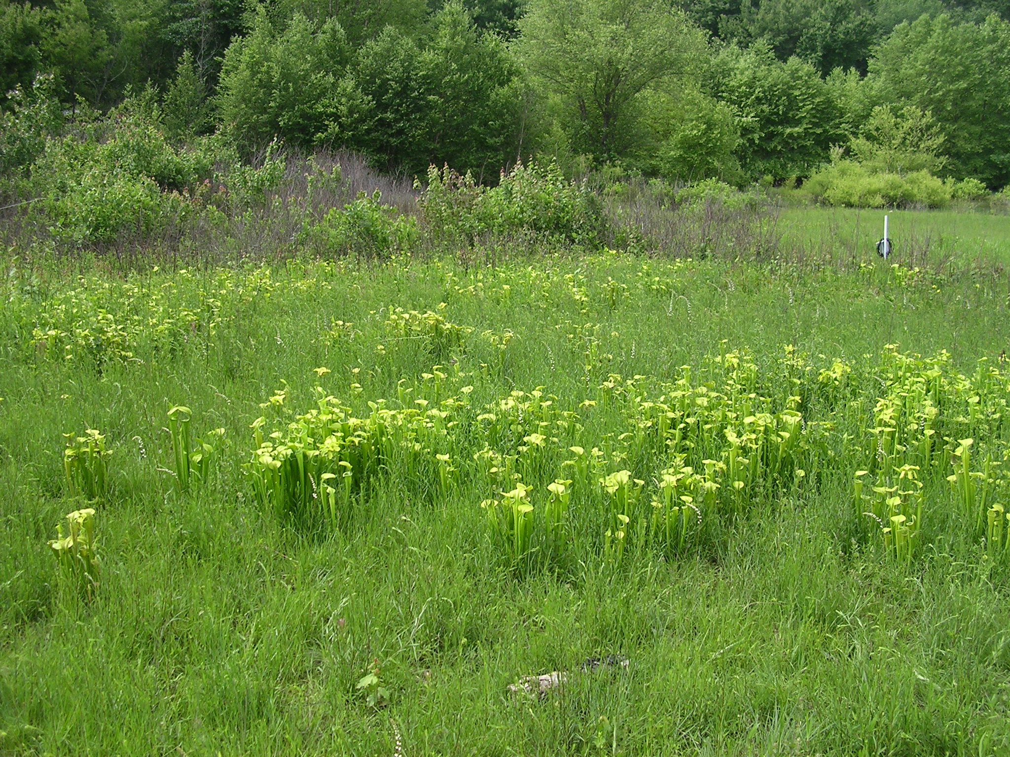 Green pitcher plant (Sarracenia oreophila) habitat[1]